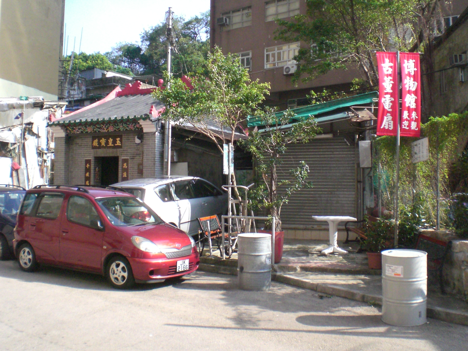 阿公岩村道 Yuk Wong Po Tin Temple dedicated to the Jade Emperor, in A Kung Ngam, Hong Kong